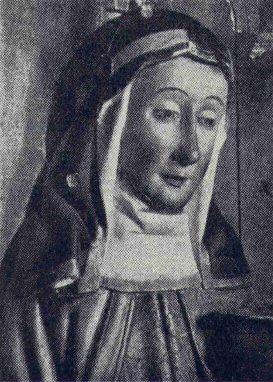 Catherine of Vadstena. Sculpture at Trönö church, Hälsingland.